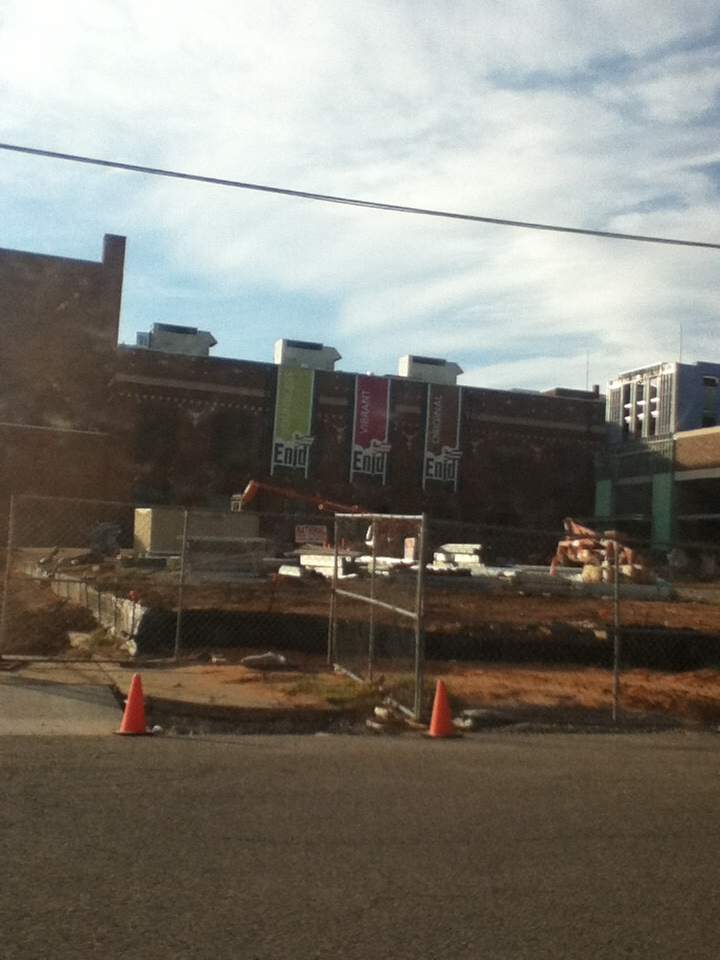 Enid Event Center under construction